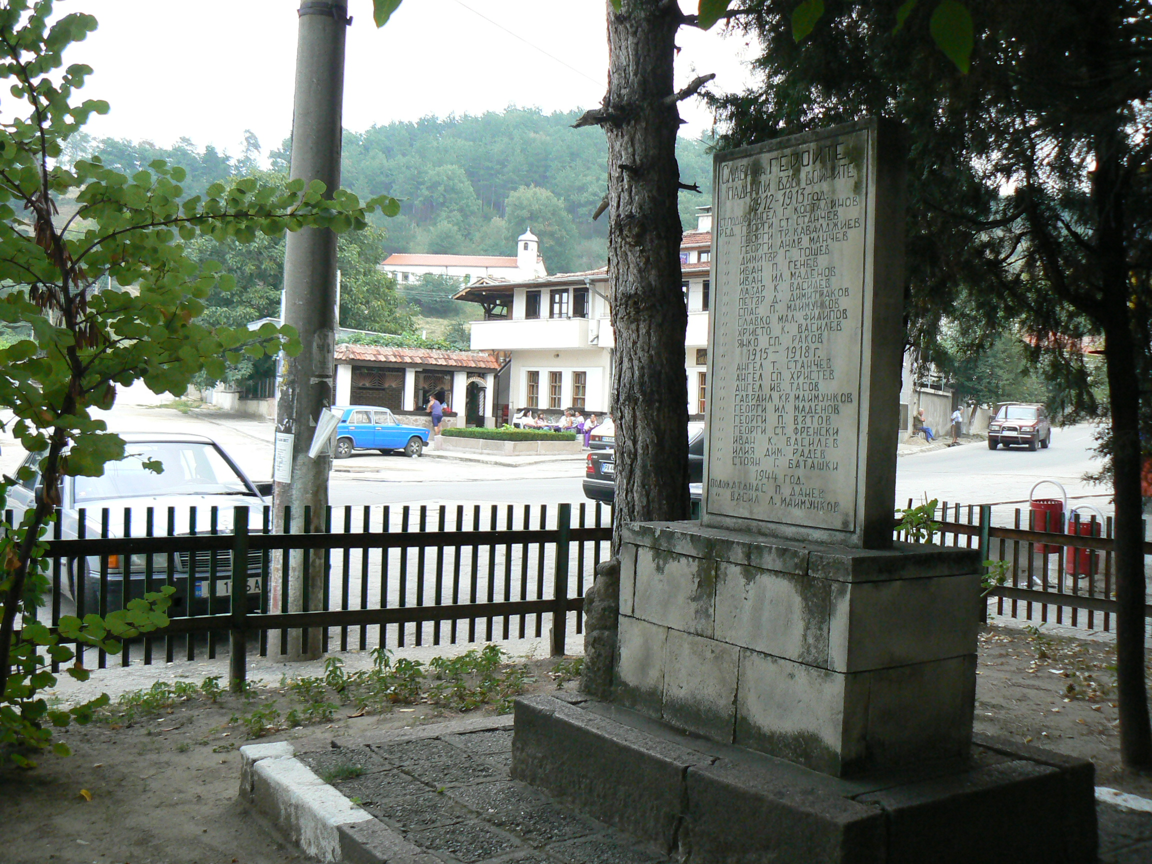 Debrashtitza village in Bulgaria - the monument of war deads, with the church at the rear